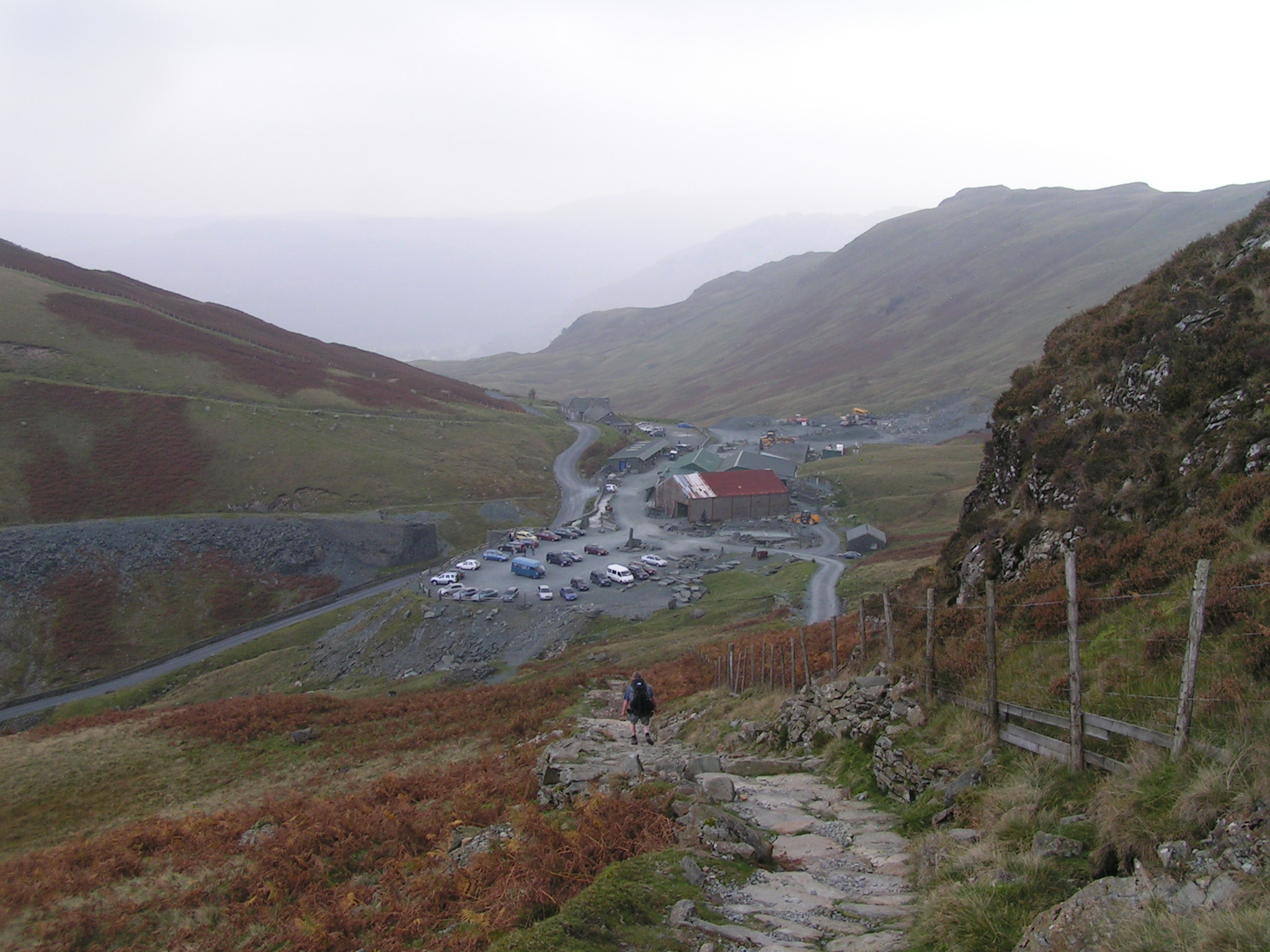 The Honister Slate Mine is a group of slate mines and quarries located at the top of the Honister Pass in Cumbria. The earliest reference to quarrying at this location is from 1728.